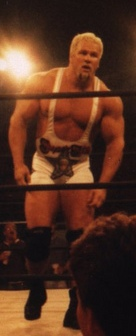 Scott Steiner during a taping of WCW Monday Nitro from Minneapolis, Minnesota in 1998.